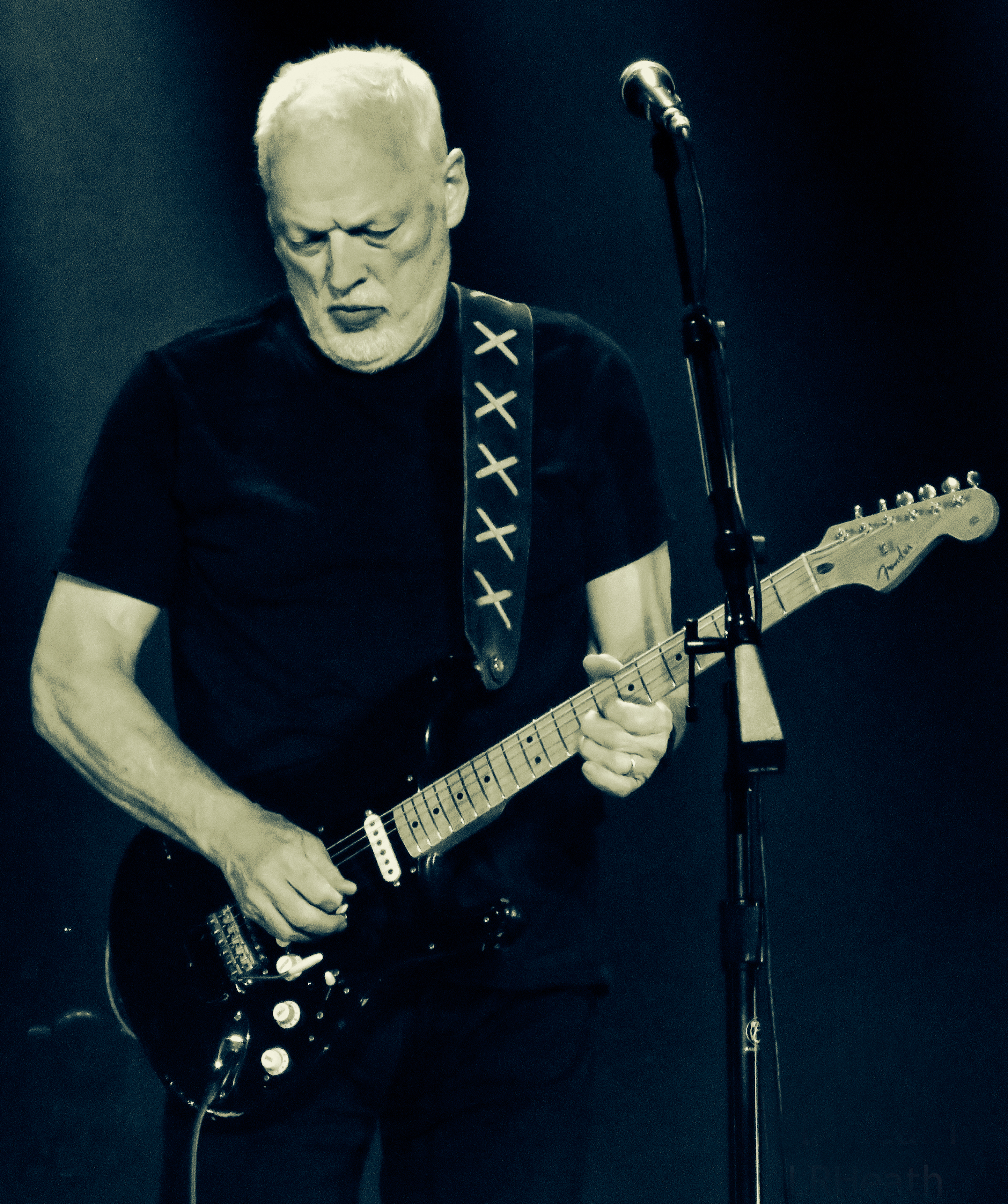 David Gilmour onstage at Madison Square Garden, April 2016